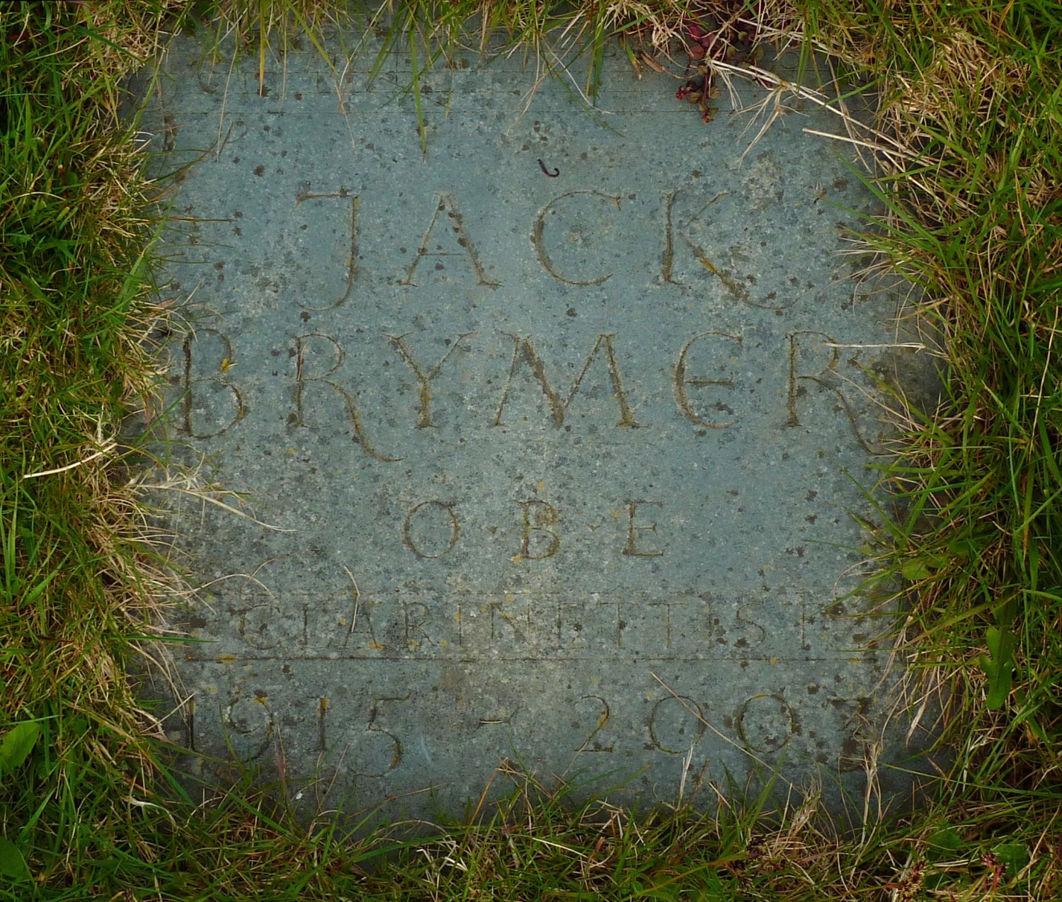 The grave of English clarinettist Jack Brymer at St Peter's Church in Limpsfield, Surrey, England.